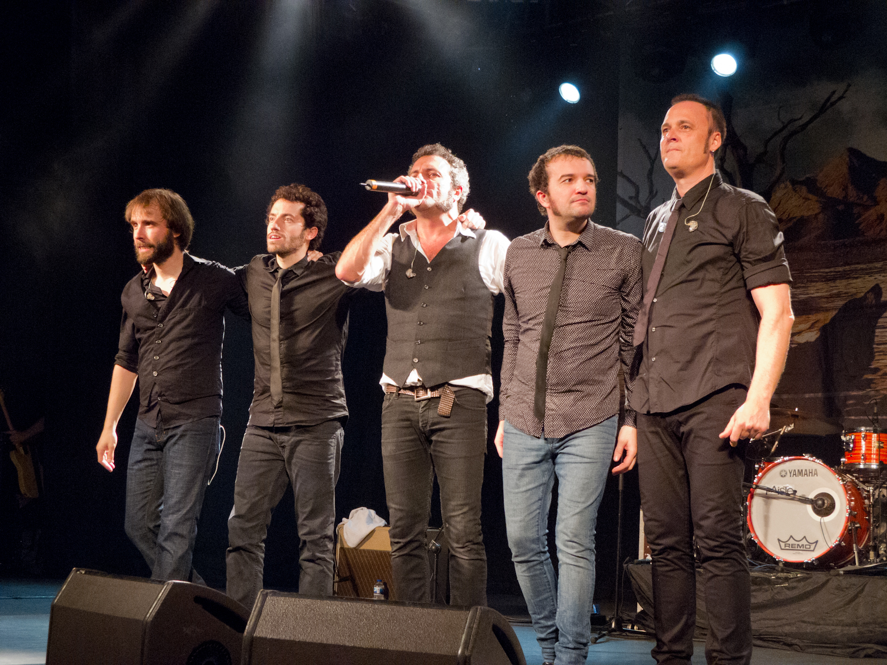 Spanish rock group M Clan during his "Arenas movedizas" Tour.